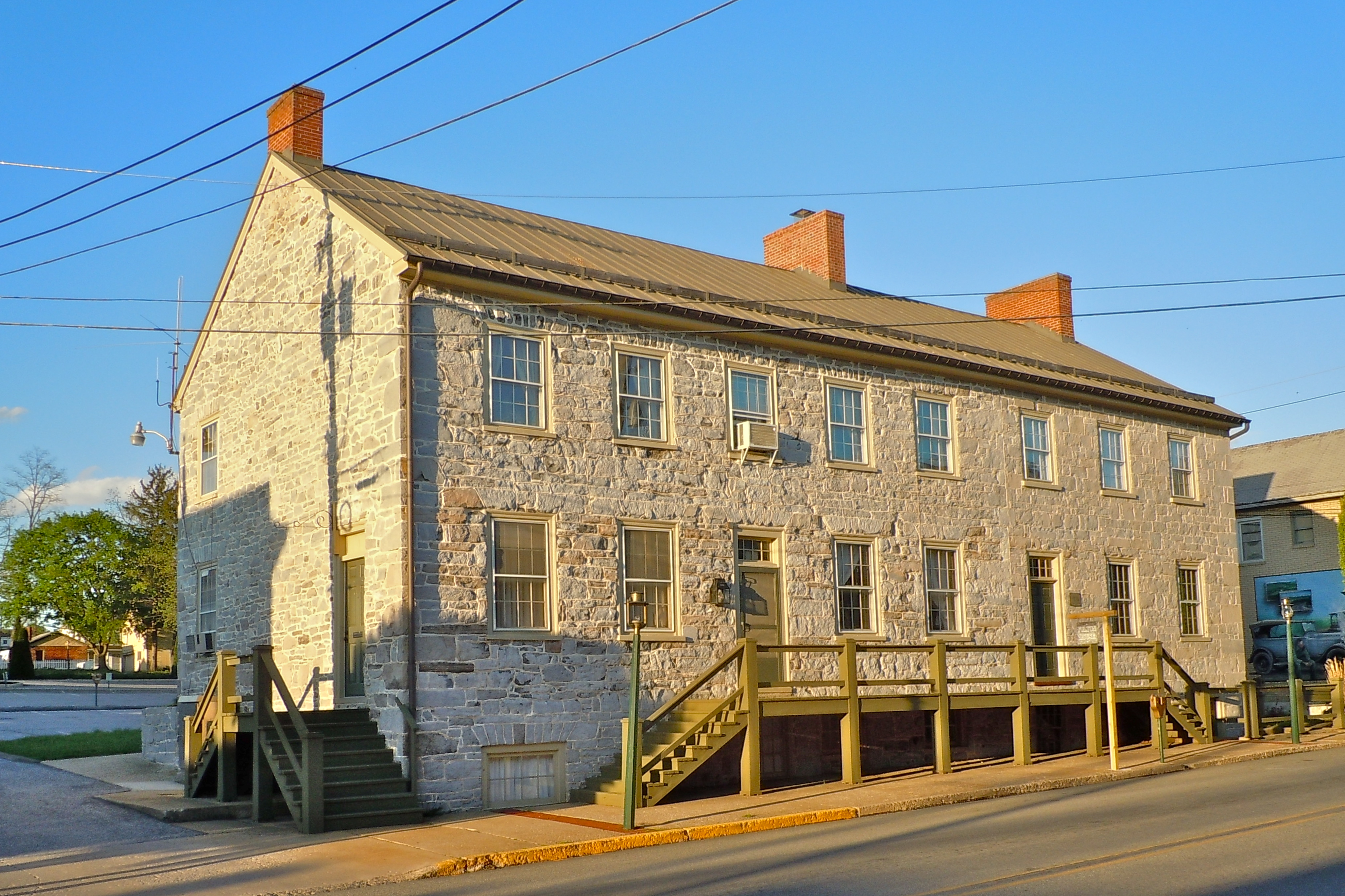 Fulton House on the NRHP since July 20, 1977. At 112–116 Lincoln Way East, McConnellsburg, Fulton County, Pennsylvania.